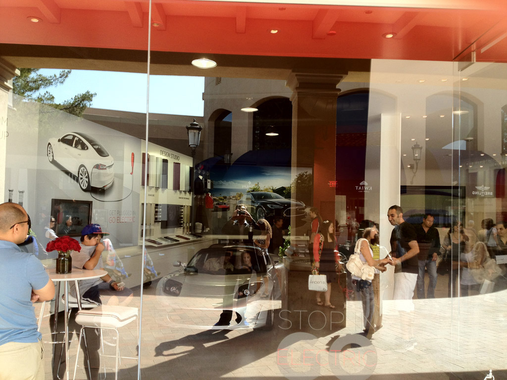 Tesla Motors at Fashion Island